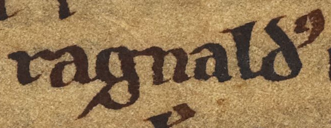 An excerpt from folio 50v of British Library MS Cotton Julius A VII (the Chronicle of Mann). The excerpt reads in Latin "Ragnaldus". The excerpt concerns Reginald, Bishop of the Isles (died c. 1170).